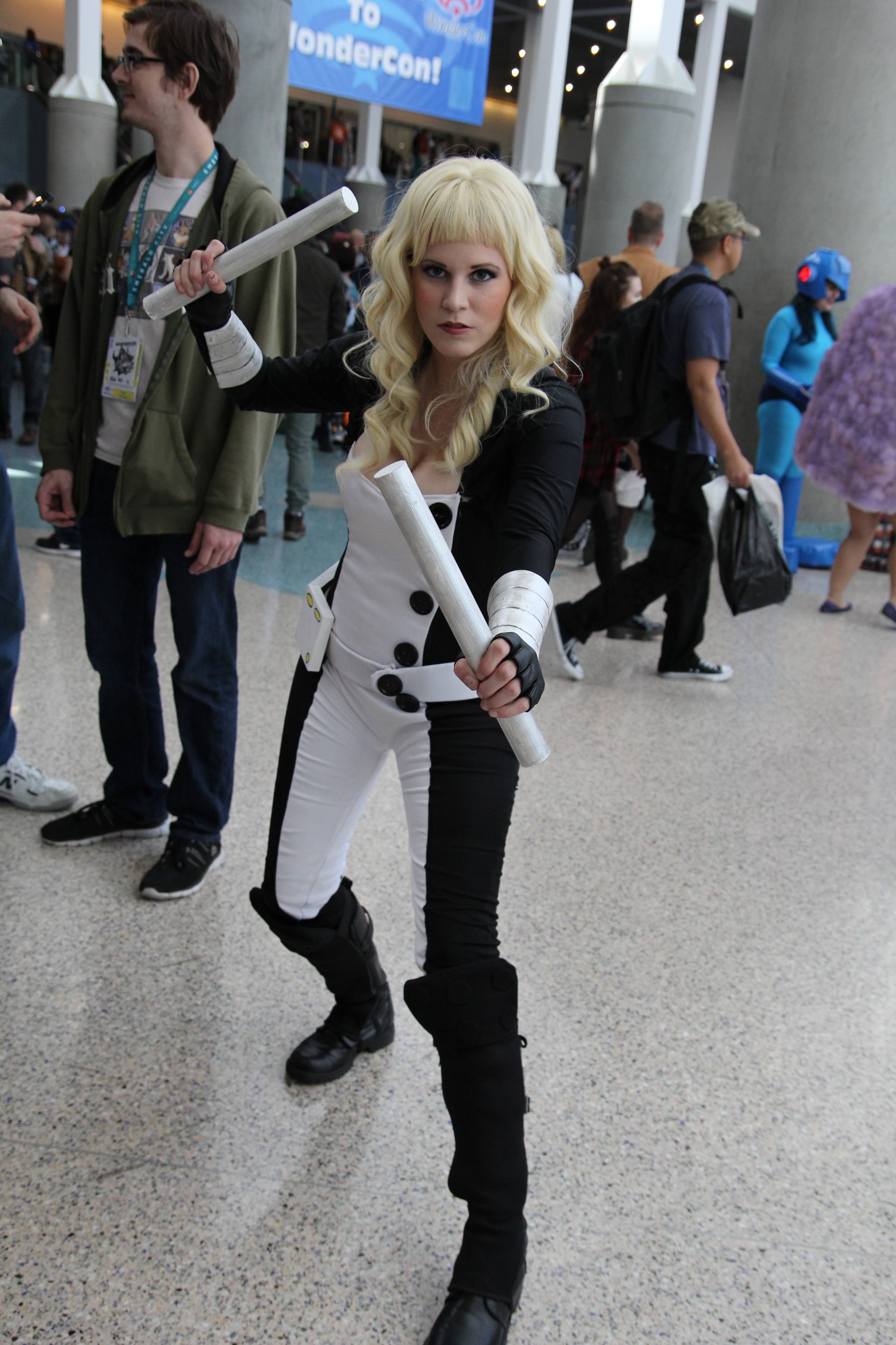 Wondercon 2016 - Mockingbird Cosplay Cosplay at WonderCon 2016.